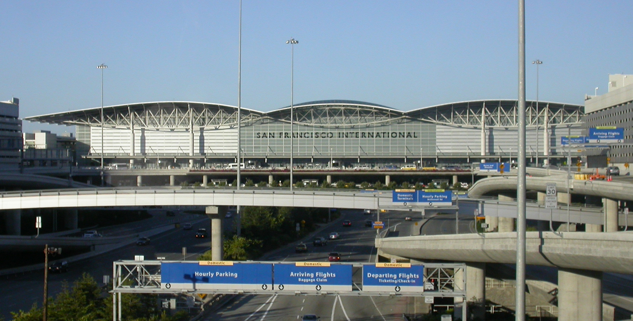 San Francisco International Airport, California, USA